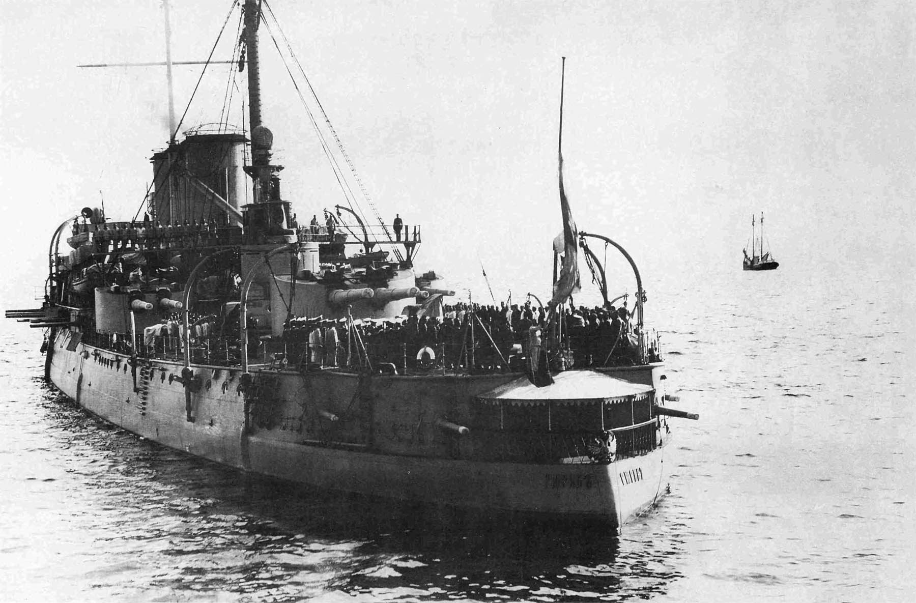 Russian armoured cruiser Ryurik, 1912.